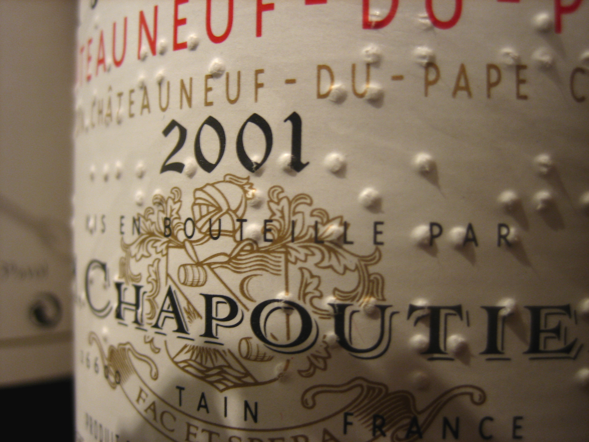 A partial image of the braile writing used on bottles of French wine from the Rhone producer Chapoutier.